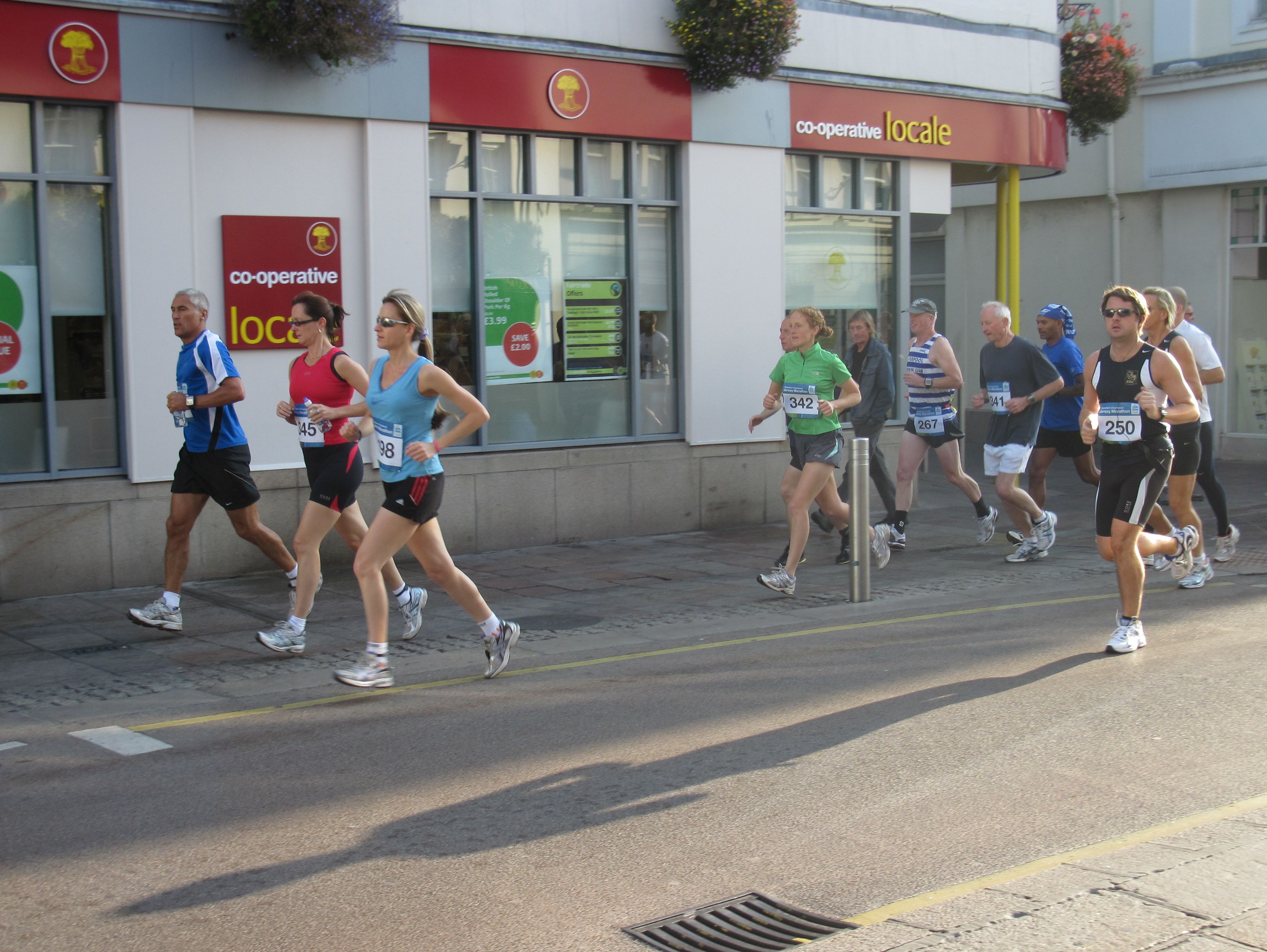 Jersey Marathon, 27 September 2009